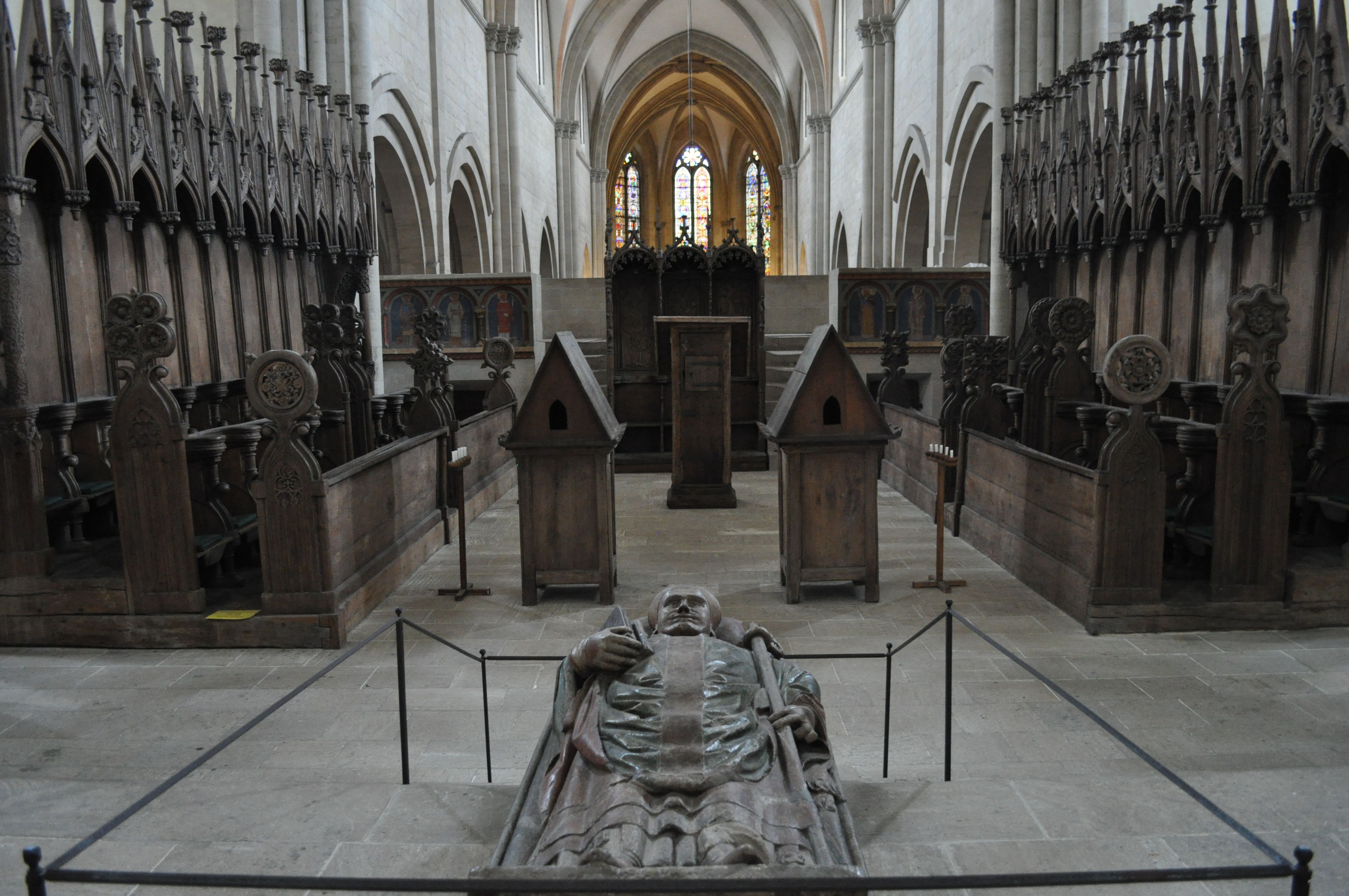 Tomb sculpture of a Bishop by the "Naumburg Master", 13th. century. East Choir of the Naumburg Cathedral